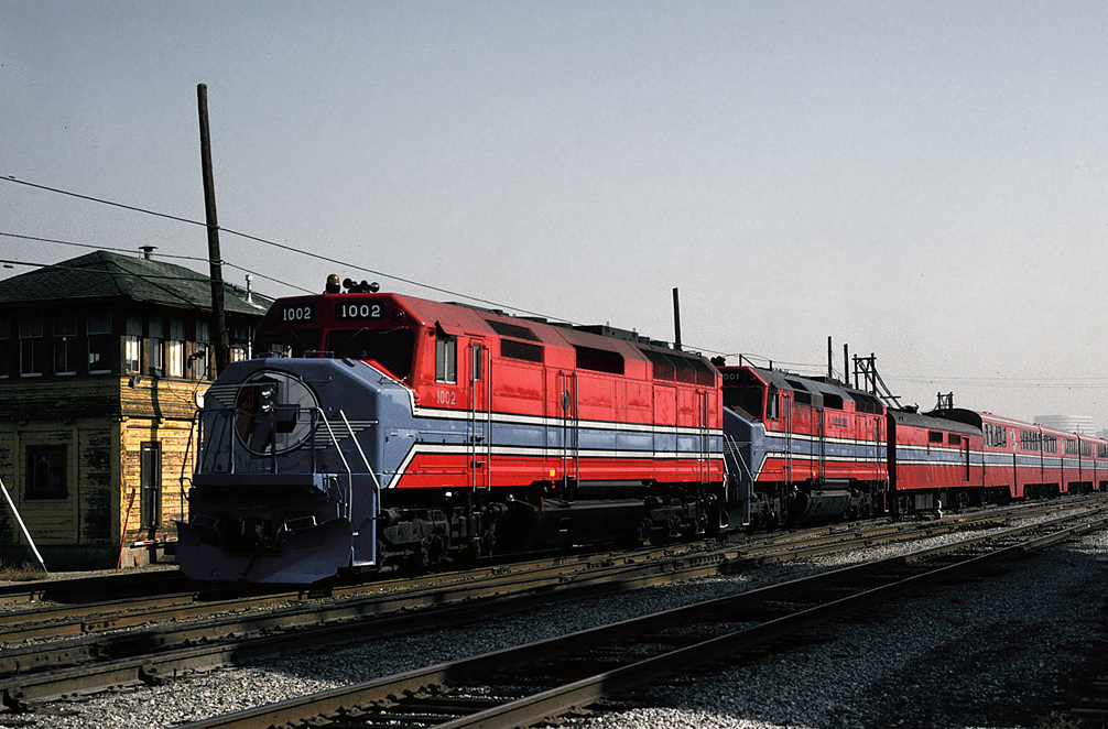 TTX 1002 at College Park Feb 1991xRP